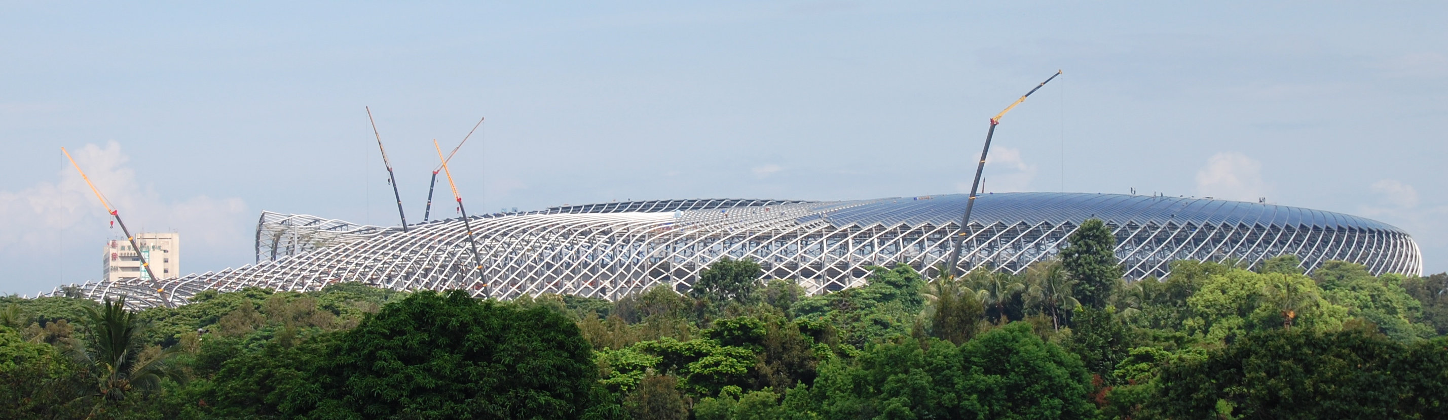 World Games Stadium 2009